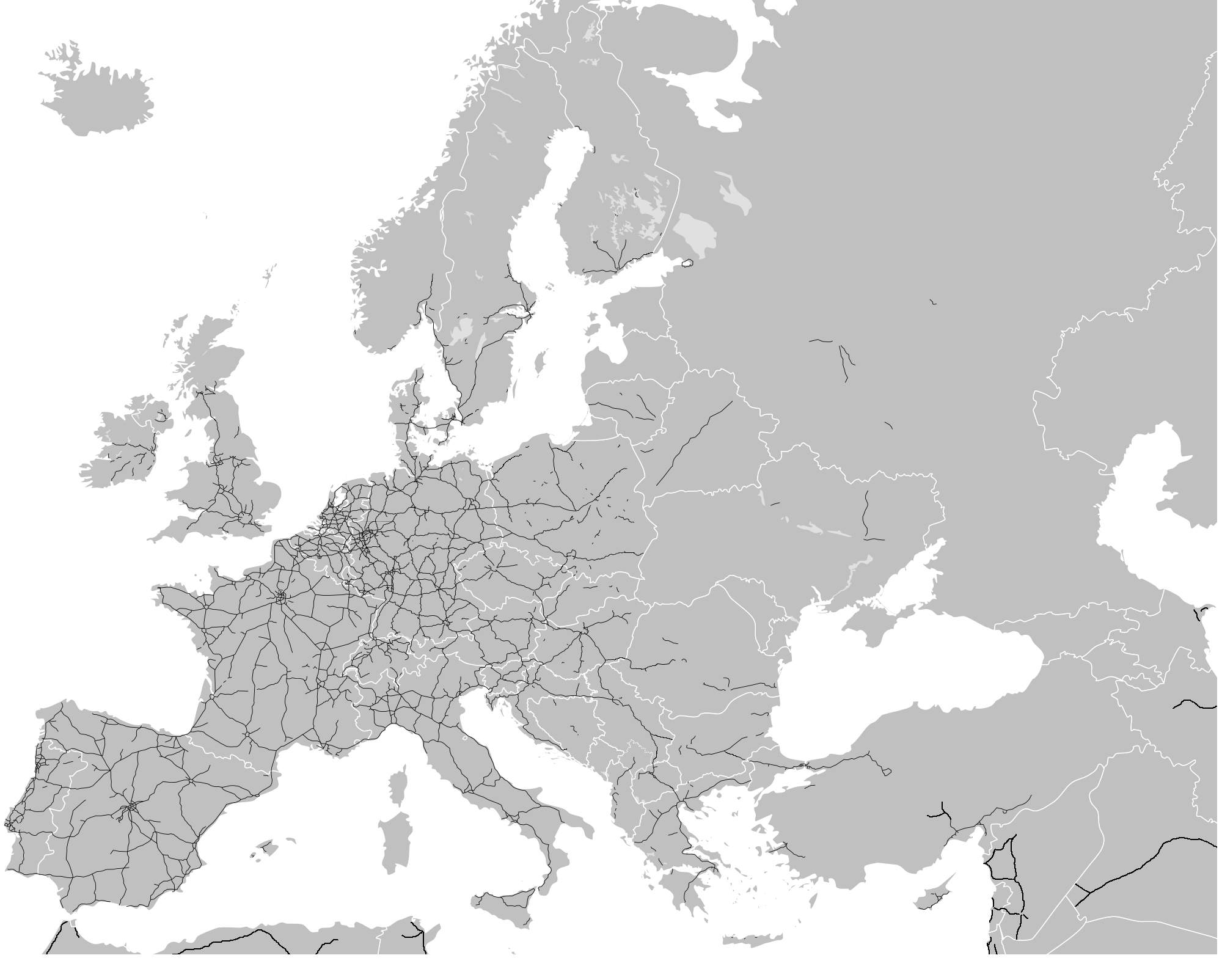 Updated Polish motorways